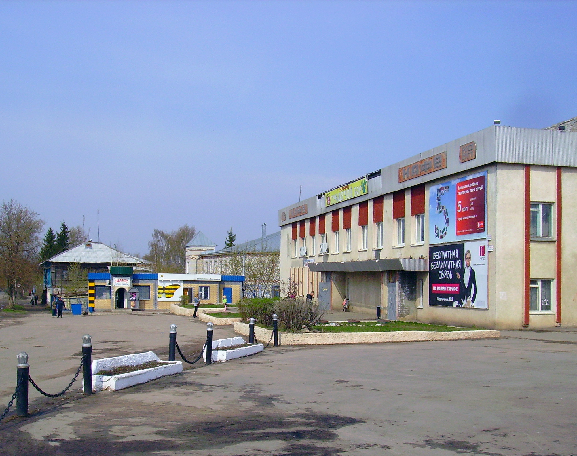 At_downtown of Knyaginino